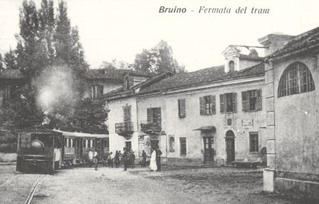 Bruino, piazza del Municipio